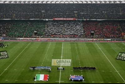 free for all use of my pcitures